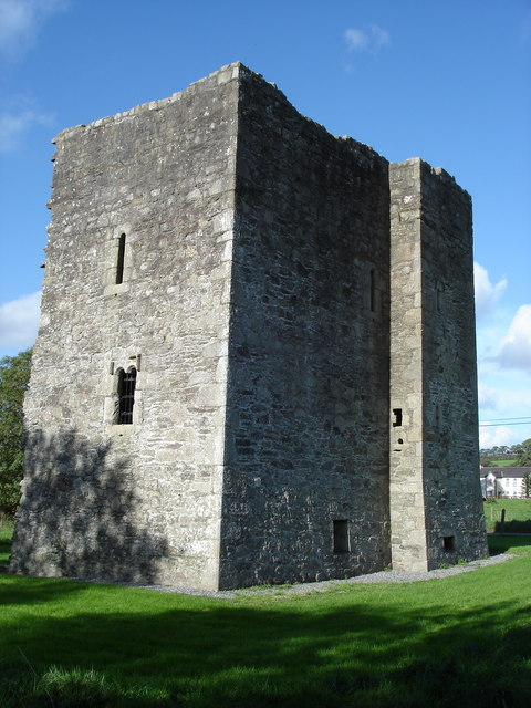 Threecastles near Kilbride, Co Wicklow. Remains of one of three castles in the vicinity.